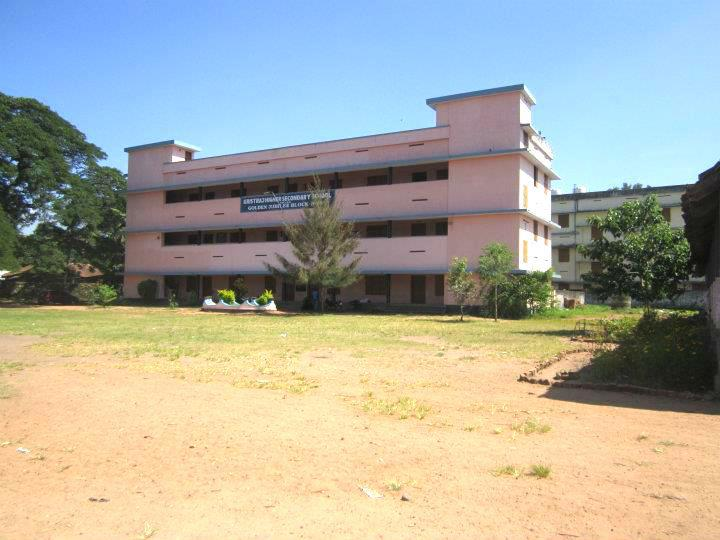 Hr Sec Block of KRHSS